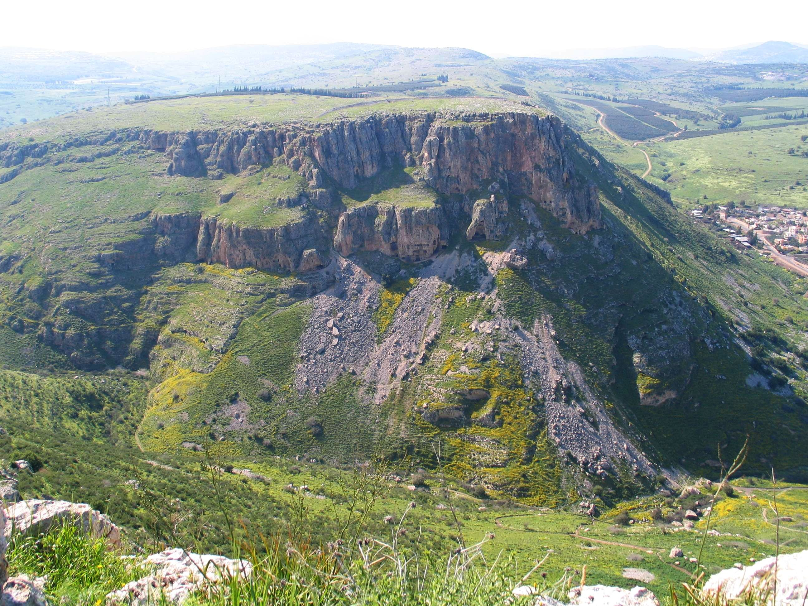 Mount Nitai, Israel.